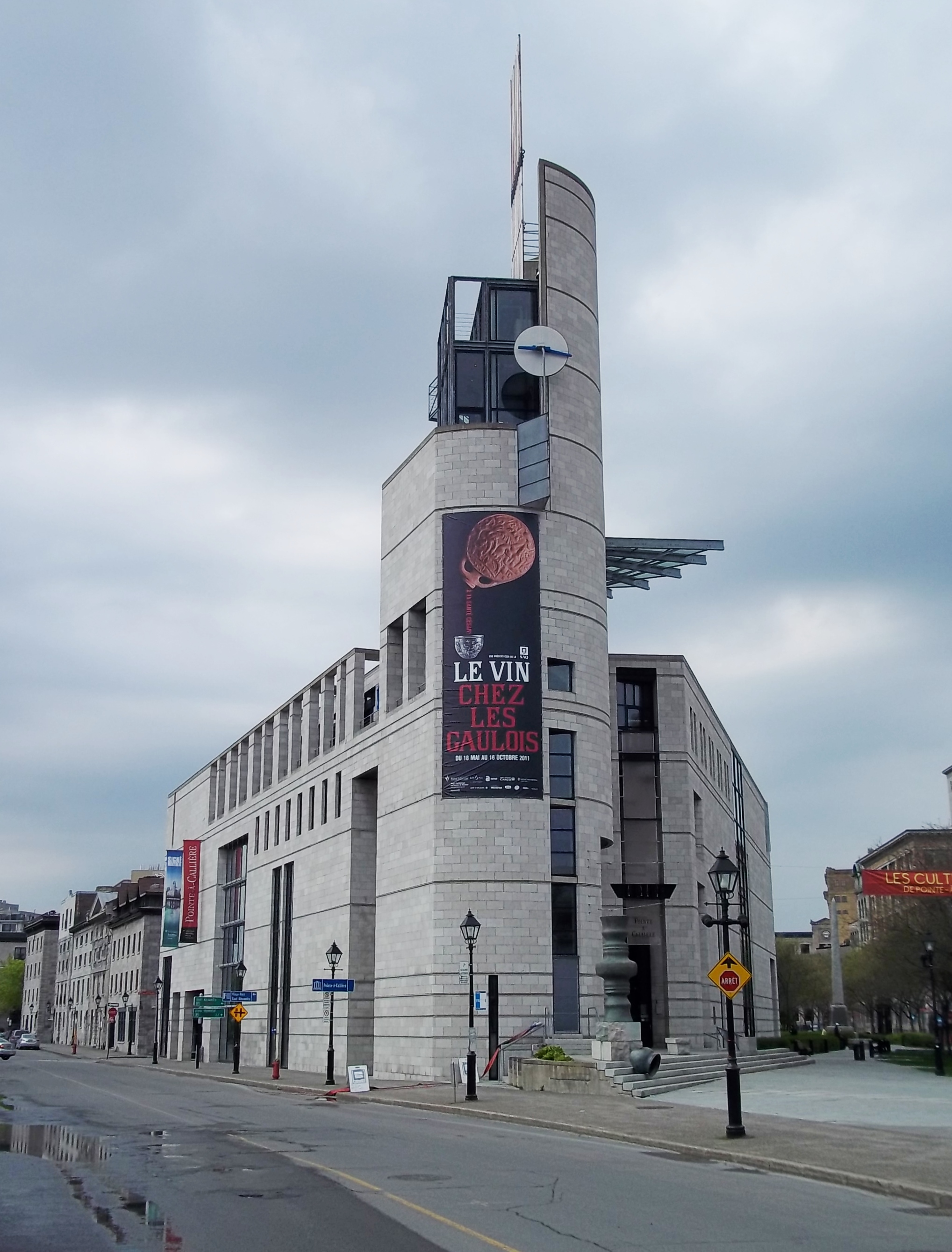 Pointe-à-Callière Museum, Éperon Building, Montreal